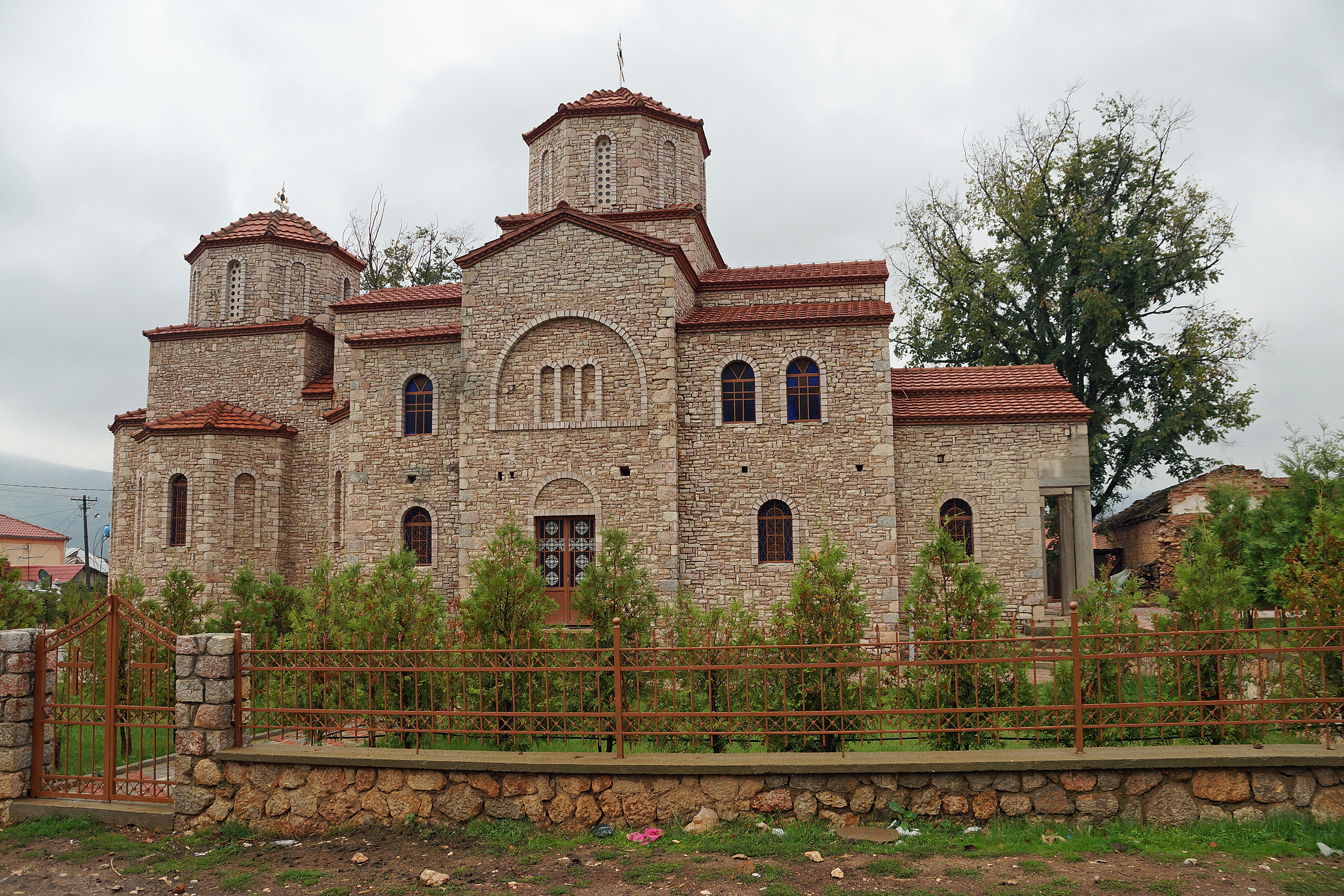 The church of Pustec/Liqenas, Albania